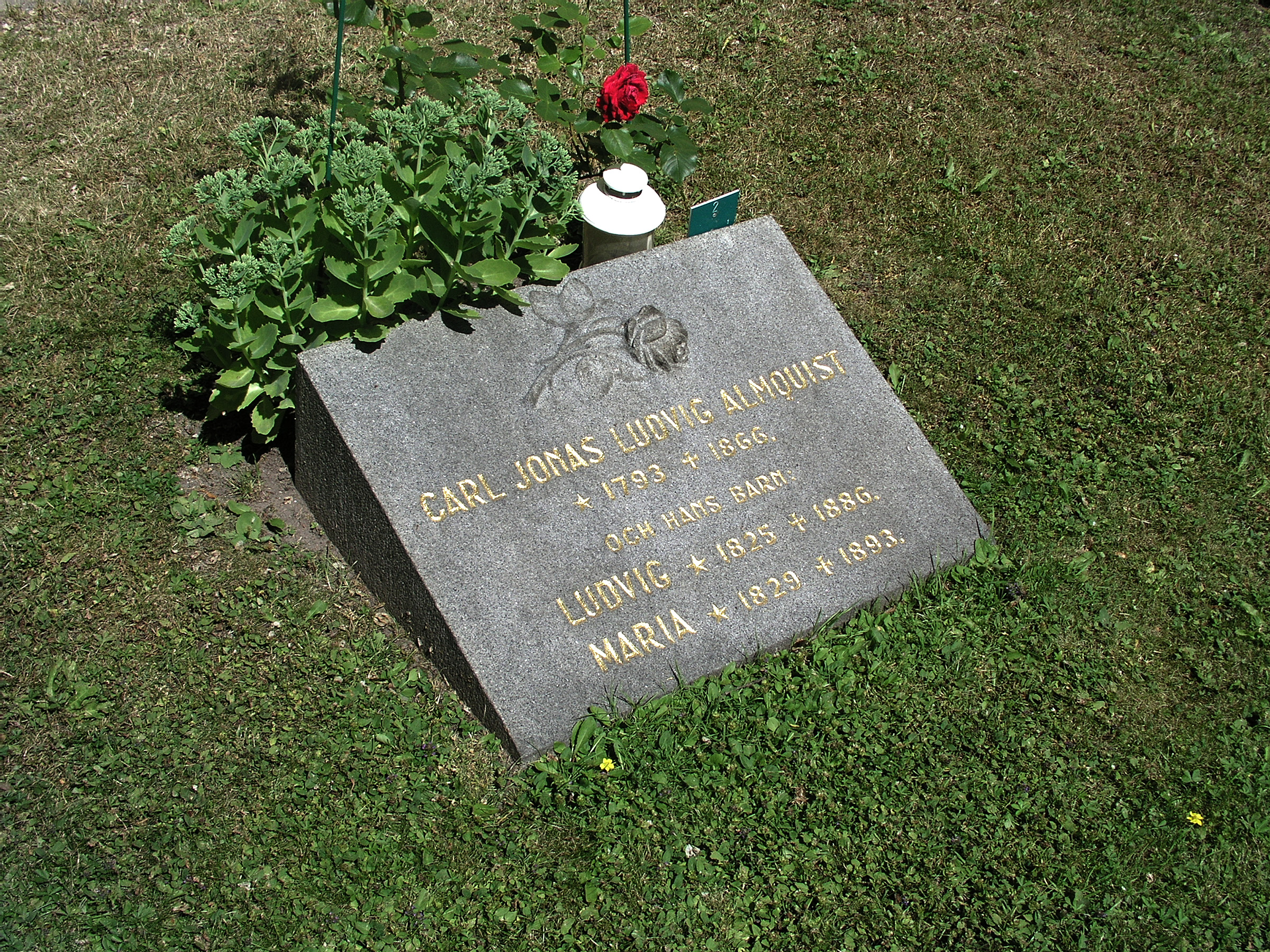 Solna Kyrka / Solna Church. Stockholms stift, Solna kommun.